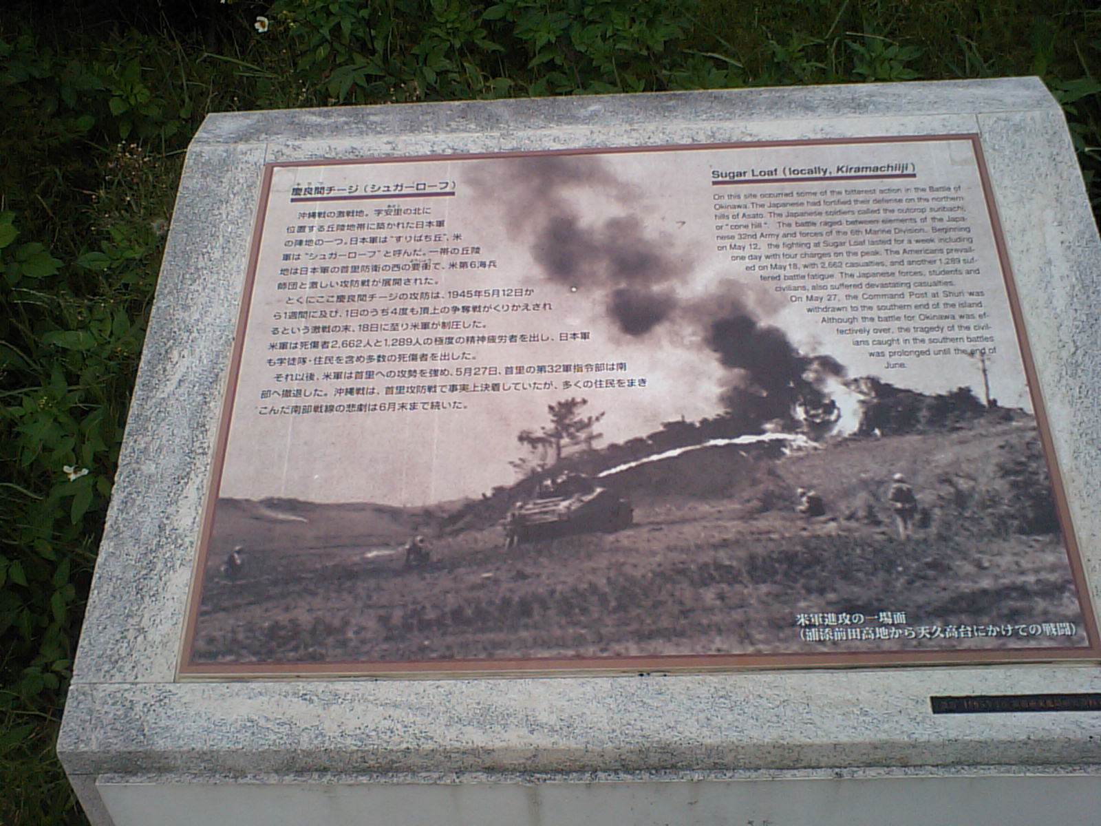 The Sugar Loaf Hill on 2010.11